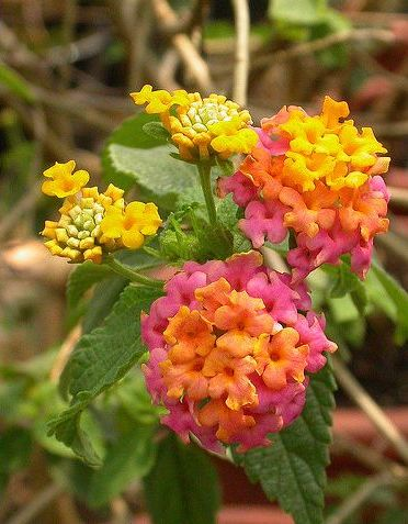 Flowering Lantana camara in Teplice botanical garden, Czech republic